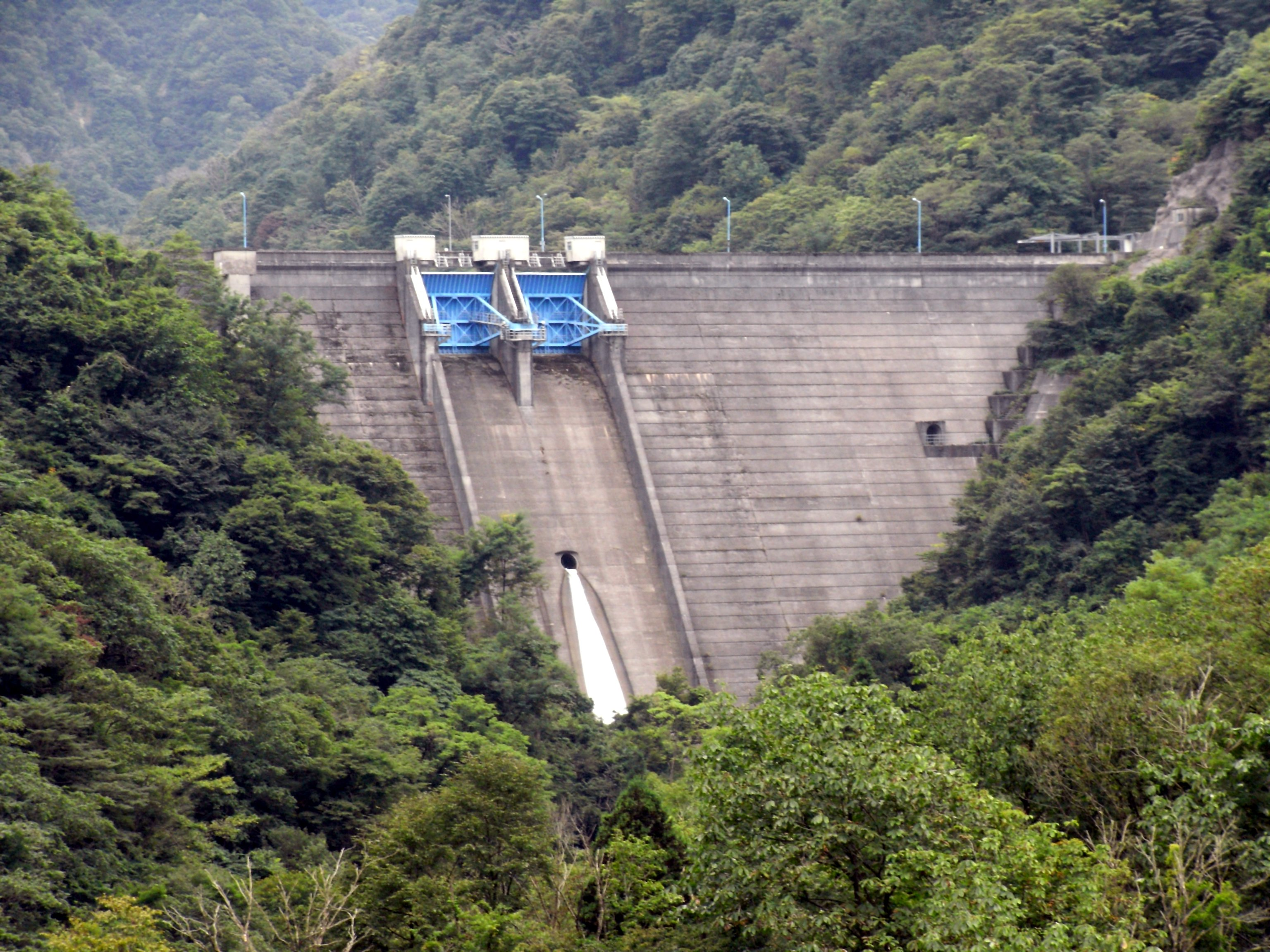 Saigawa Dam(Saigawa river/Ishikawa Pref./Japan)